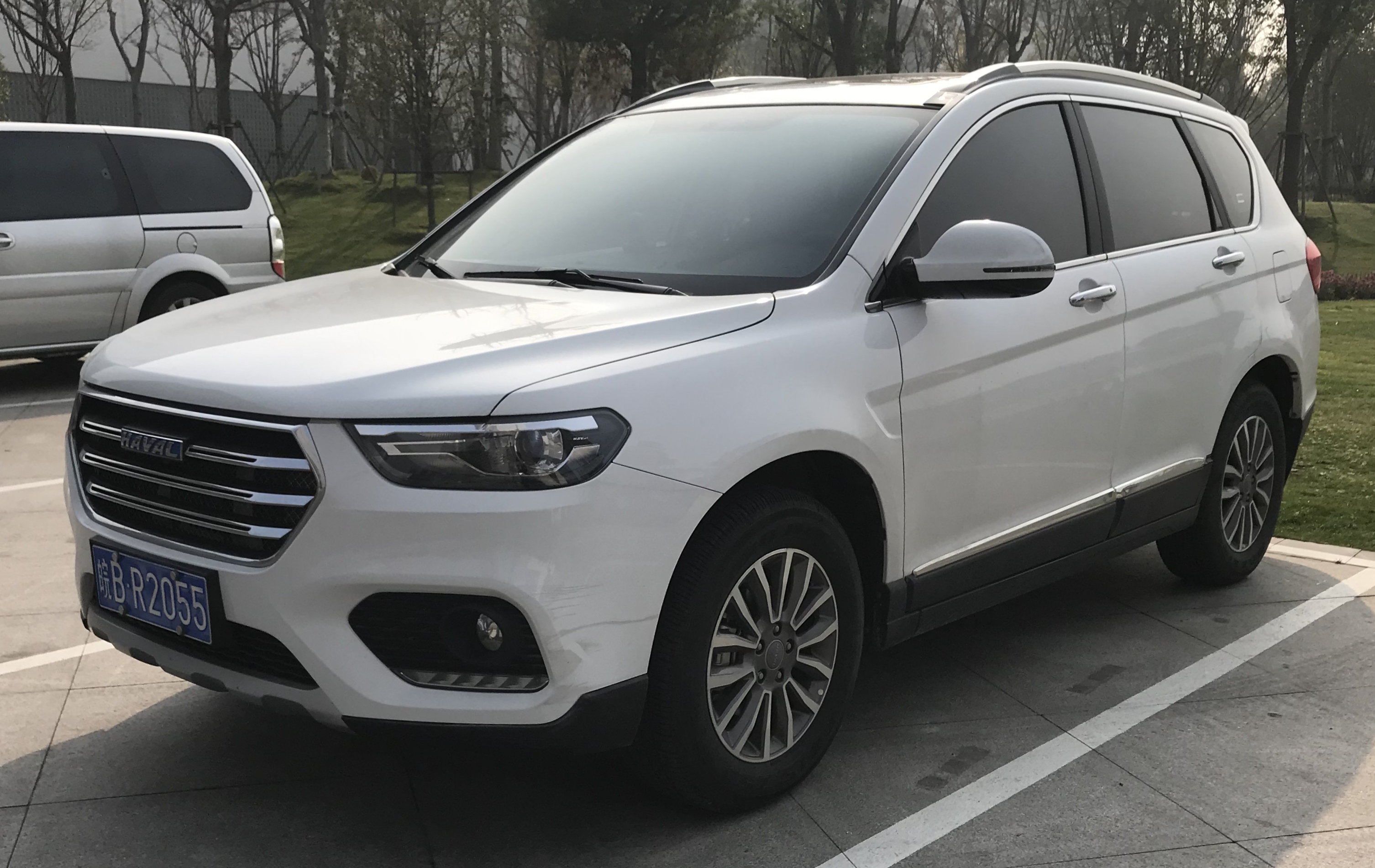 Haval H6 Sport facelift